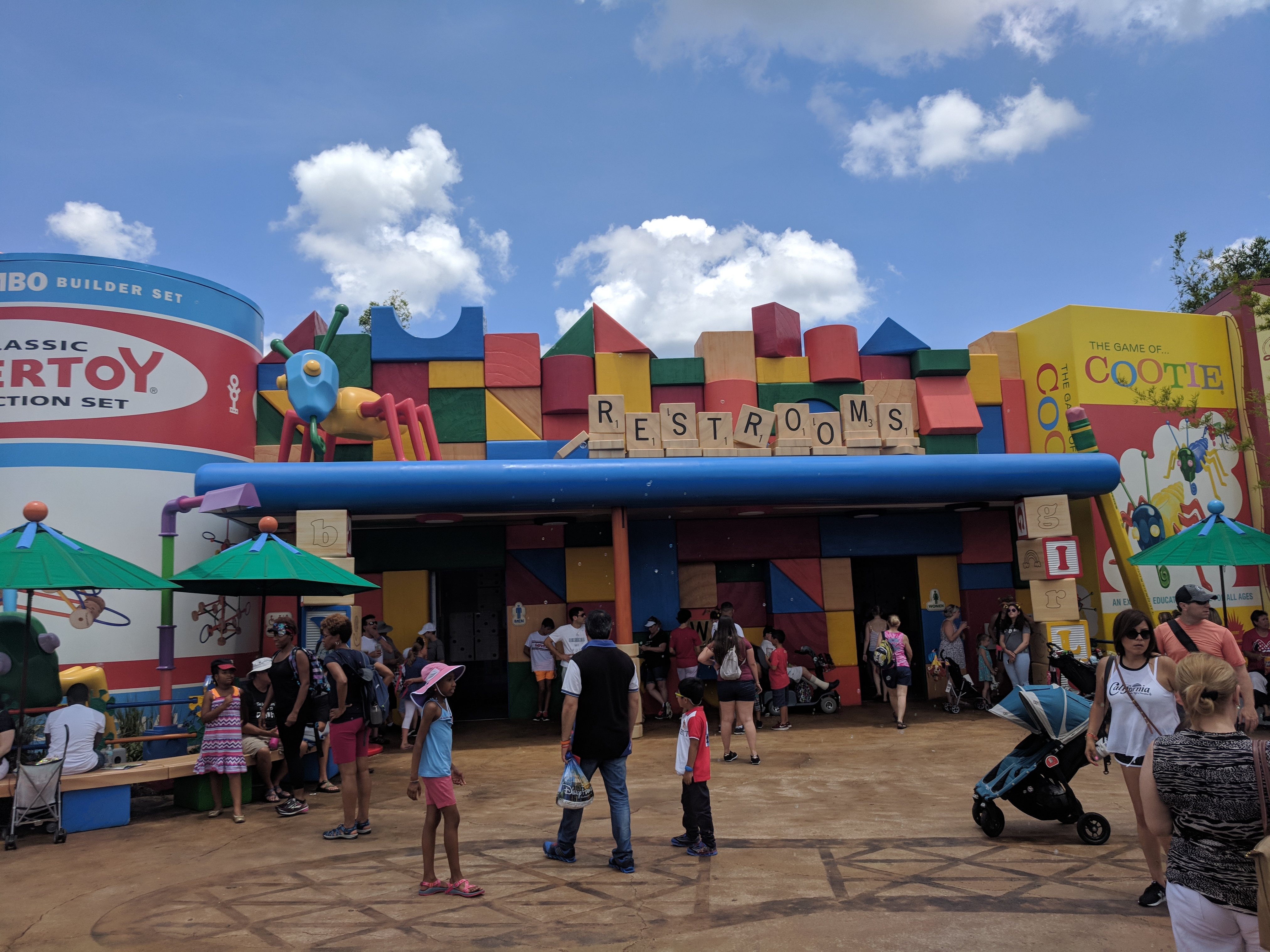 Toy Story Land Restrooms